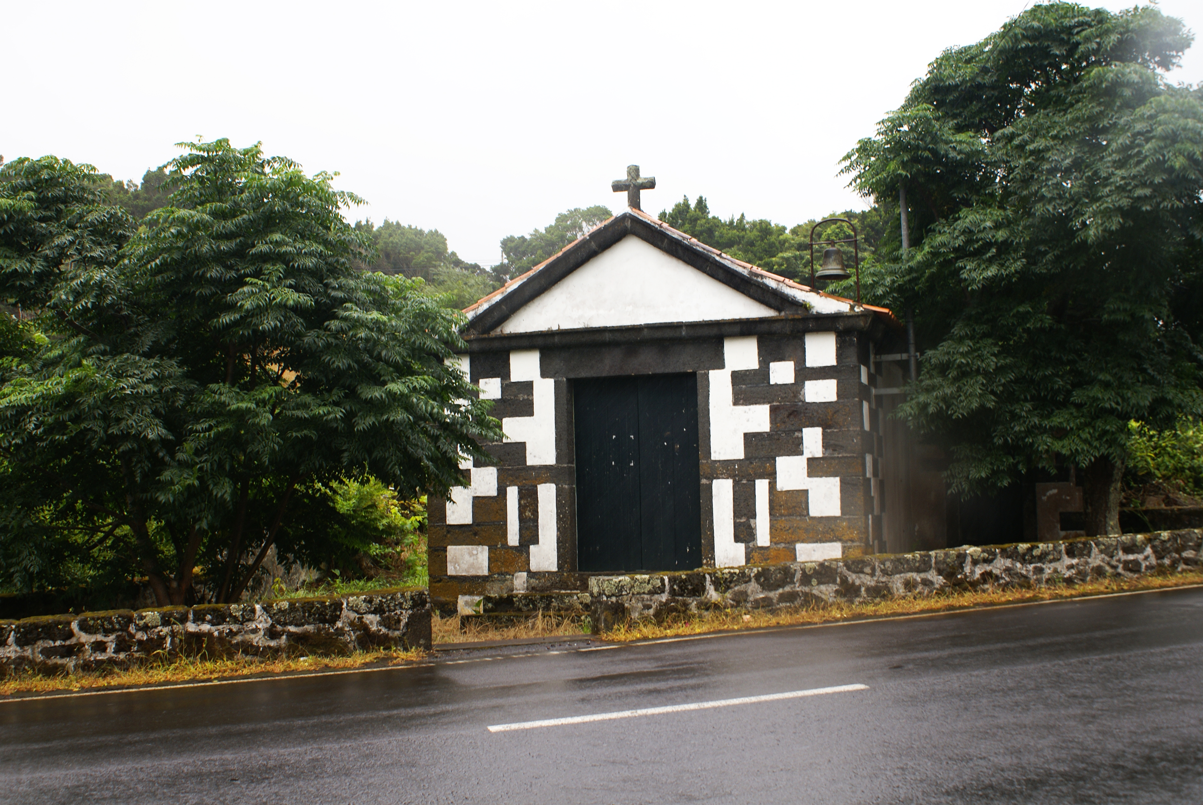 Ermida de São Caetano, Cabeço Chão, concelho da Madalena do Pico, ilha do Pico, Açores, Portugal